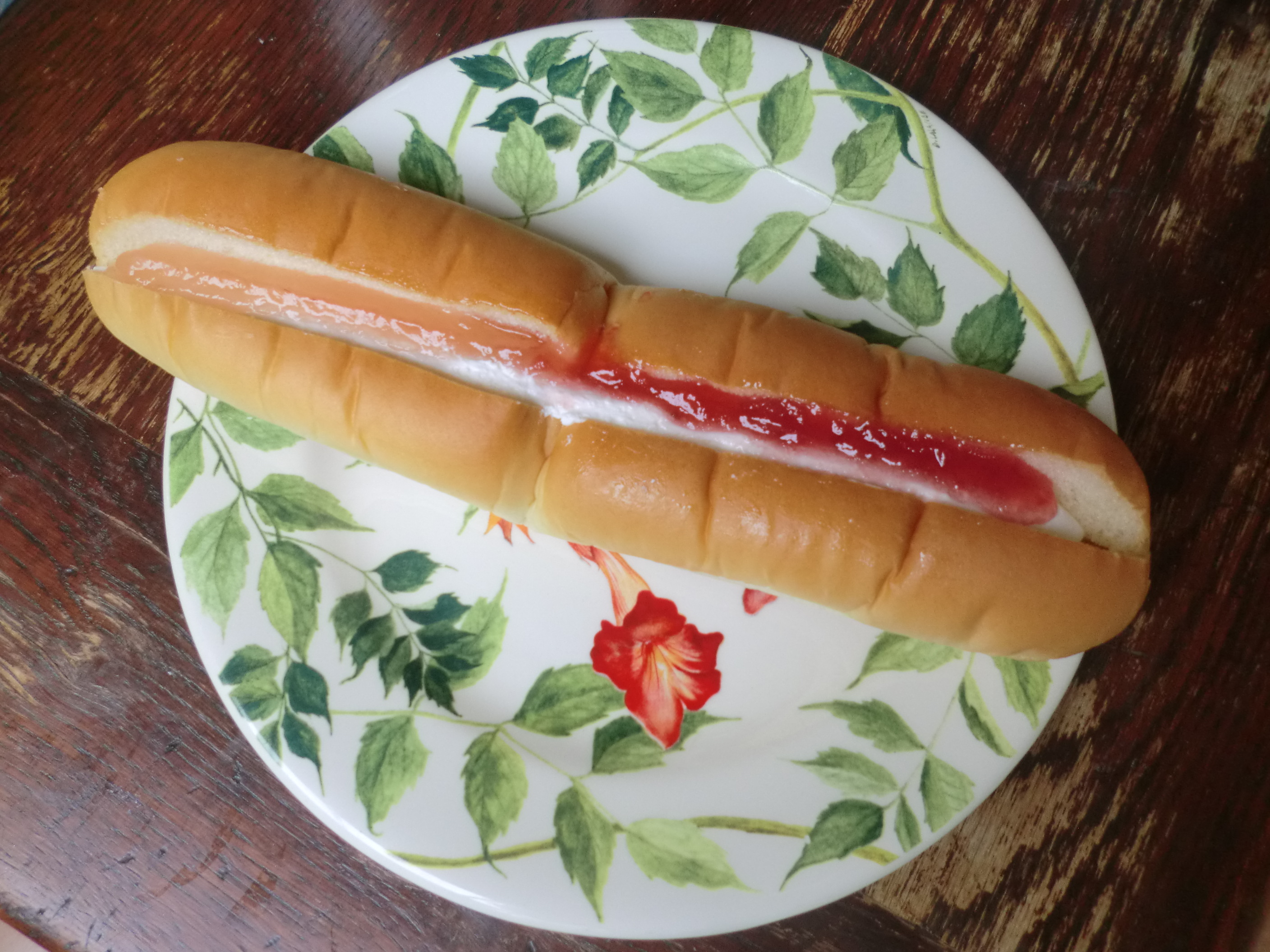 Breads made in program "Momochihama store" of Television Nishinippon (broadcasted in Fukuoka prefecture).